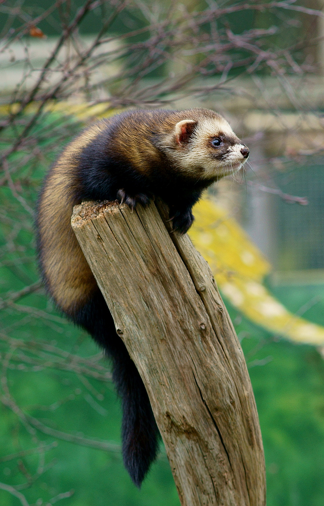 Seen at the British Wildlife Centre, Newchapel, Surrey.